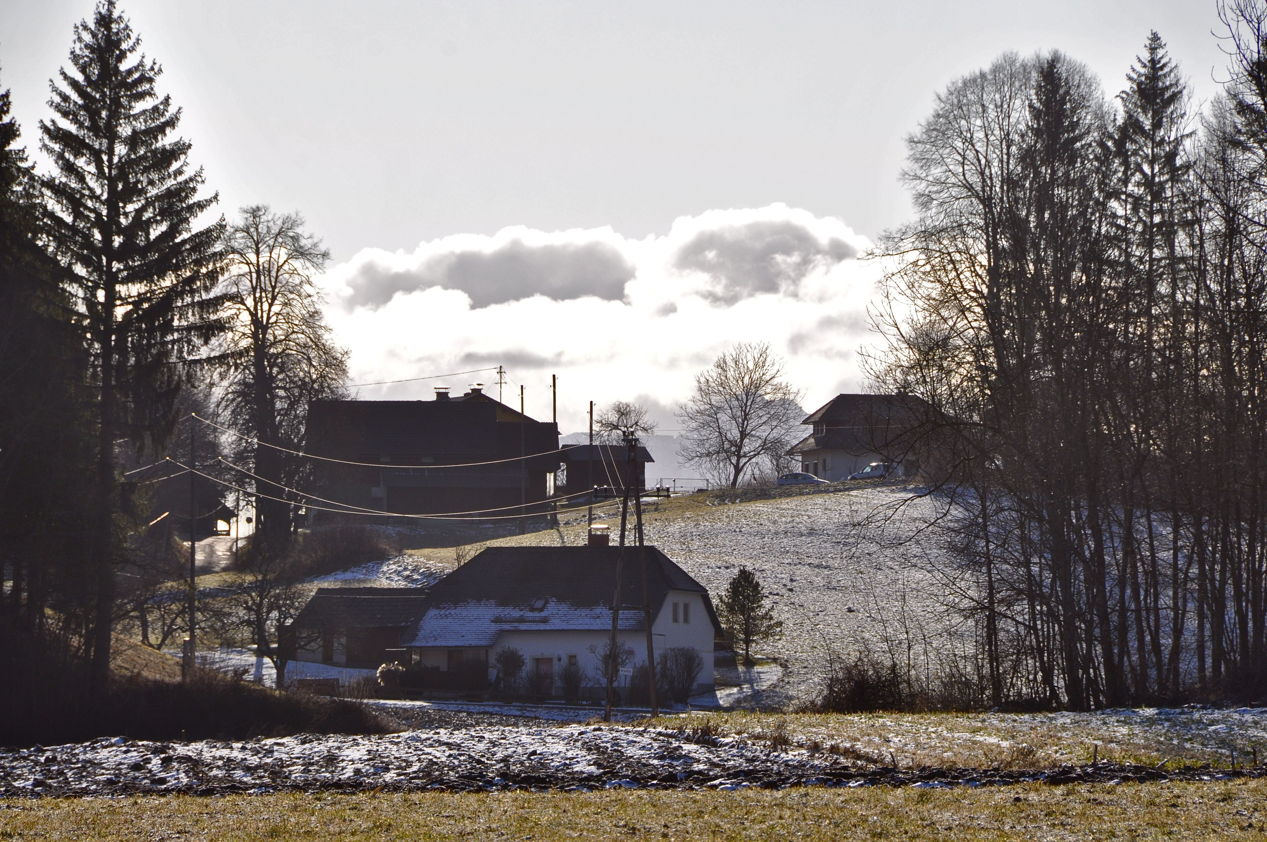 Hamlet Preilitz, municipality Sankt Veit an der Glan, district Sankt Veit an der Glan, Carinthia, Austria